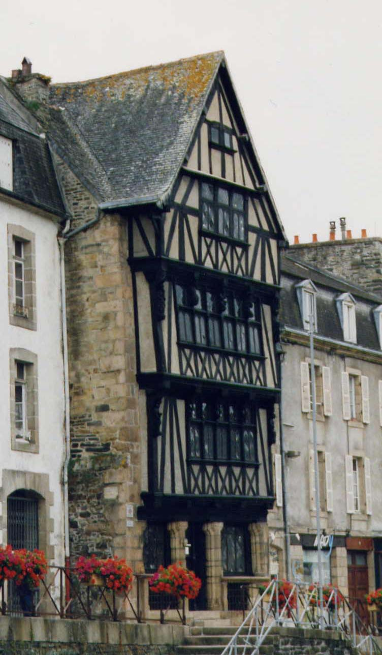 House known as ‘Duchess Anne’s House’, Morlaix, Brittany